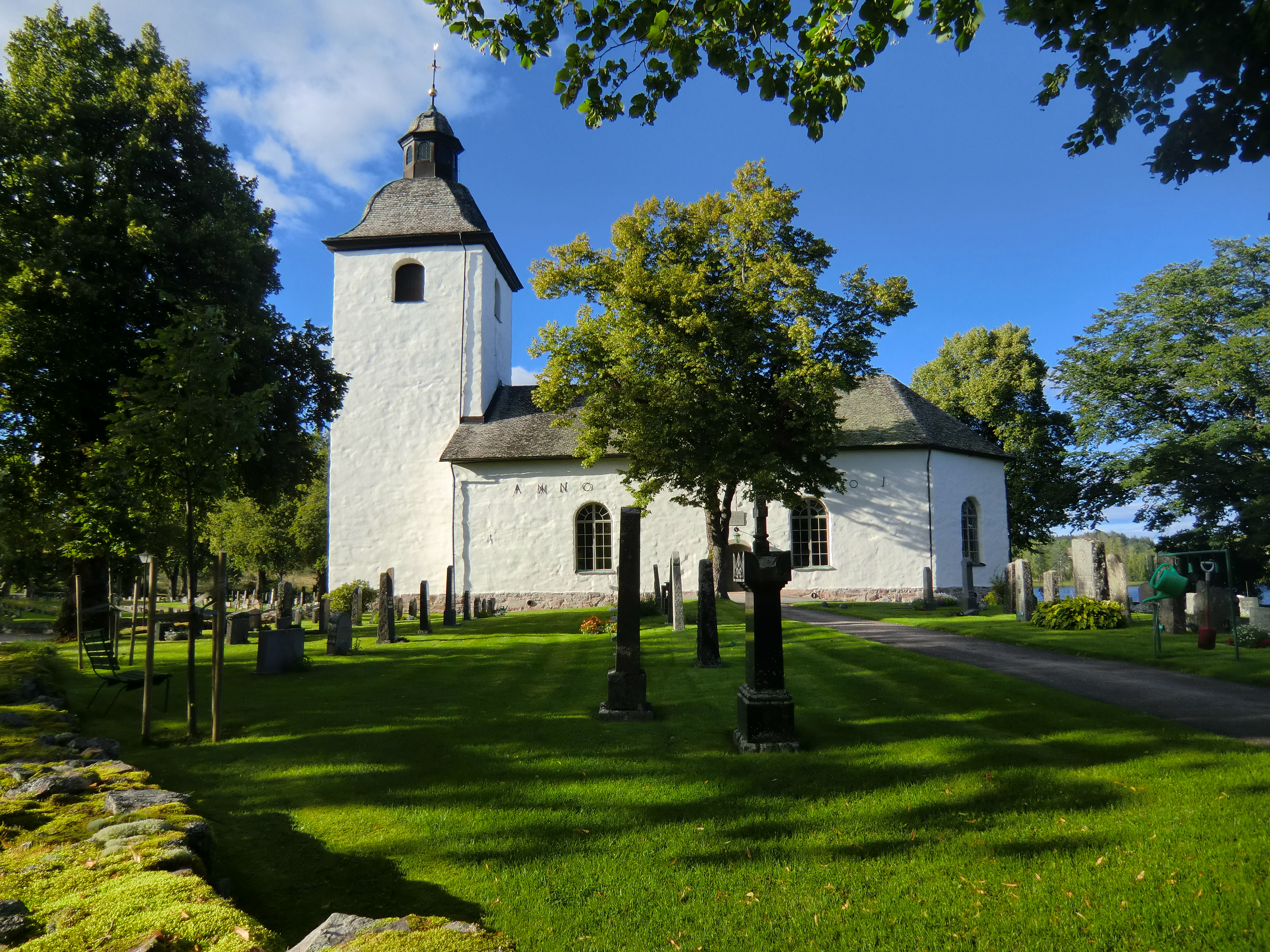 Köla church in Värmland, Sweden.